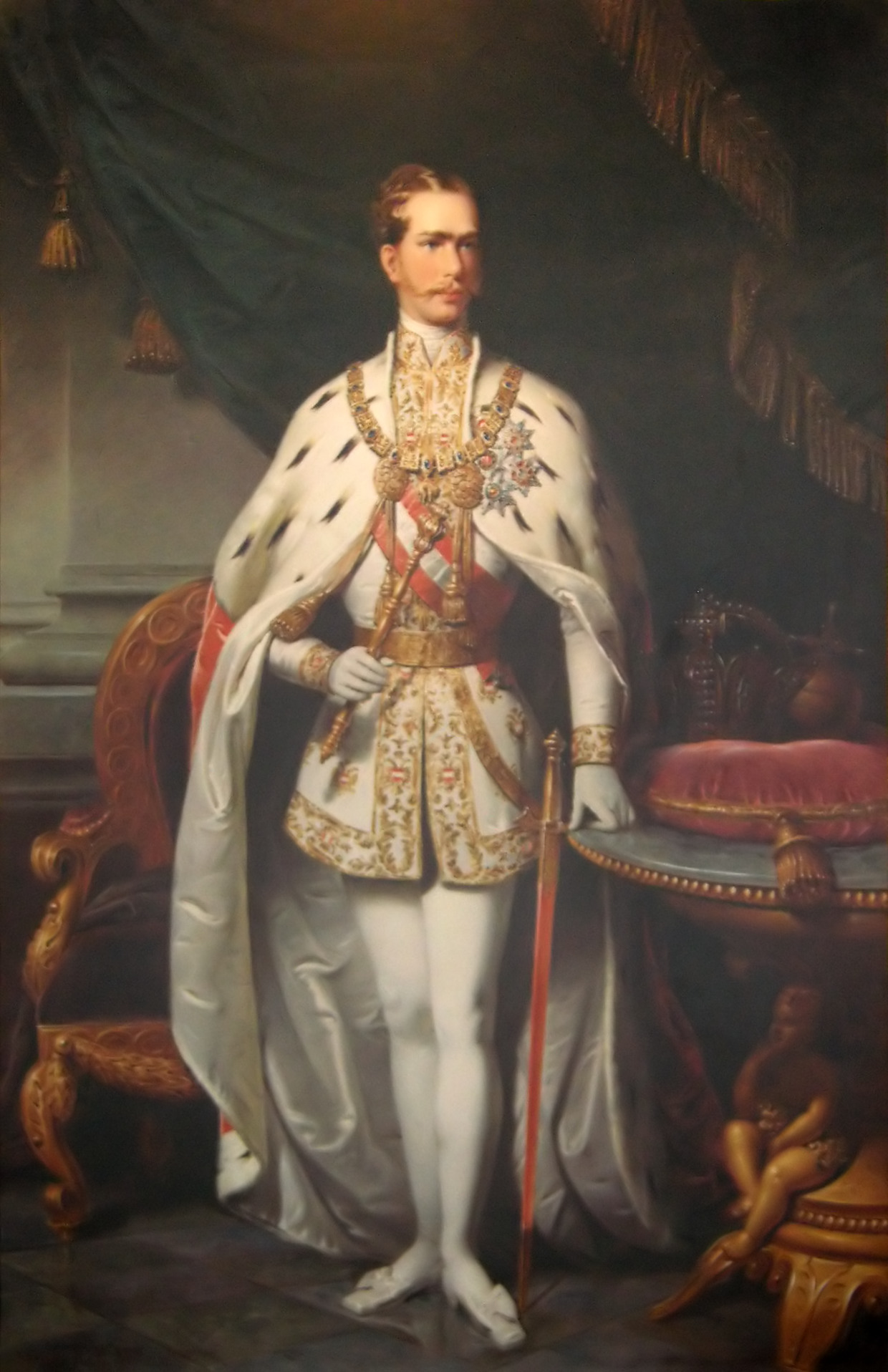 Image reproduction of a painting hanging at the Café Central in Vienna's first district Innere Stadt. The piece was painted in 1859 according to the information plaque below.